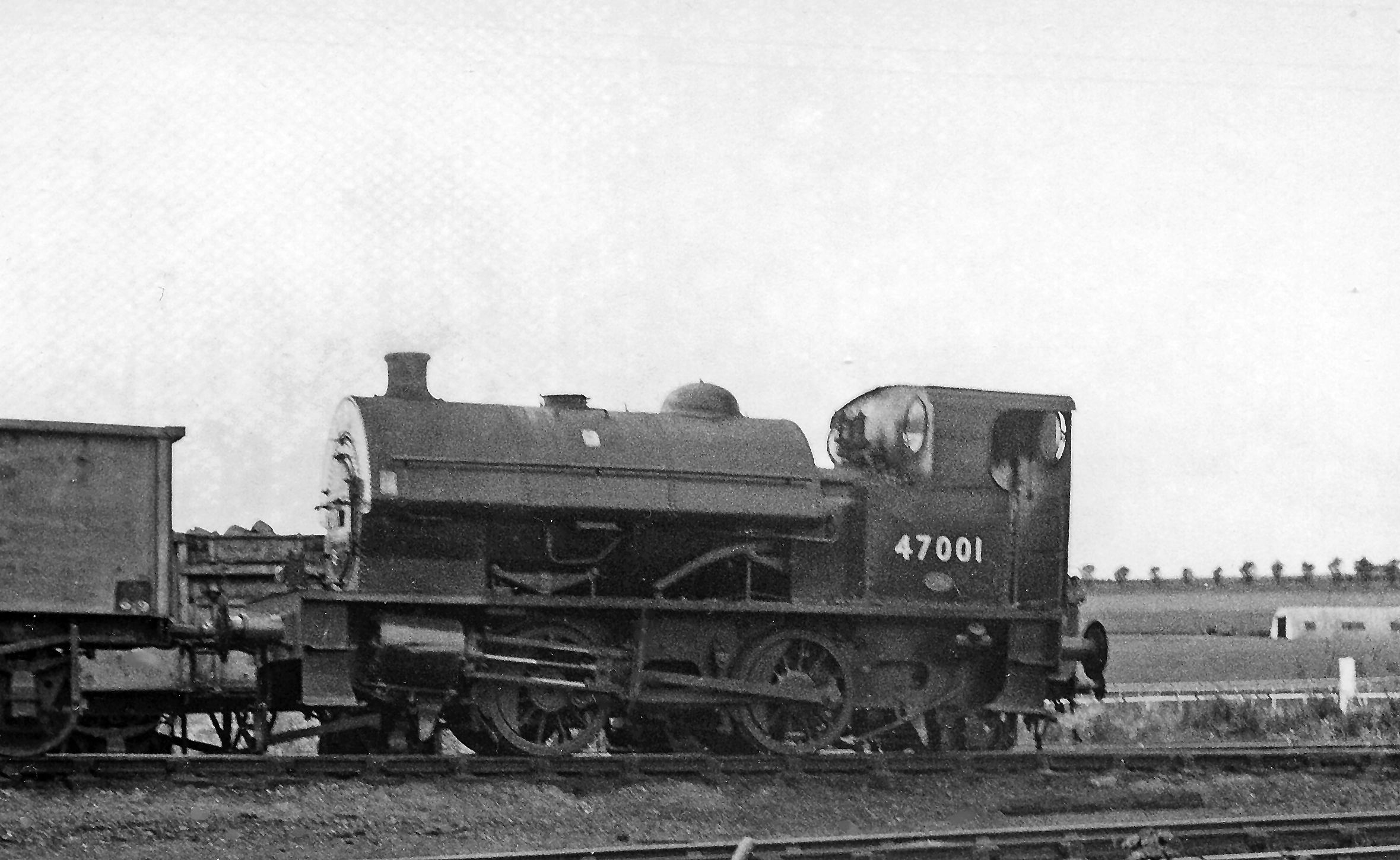 LMS 0-4-0T at Barrow Hill (Staveley) Locomotive Depot. No. 47001 was one of five 0-4-0 saddle-tanks built by Kitson's to a 1932 Stanier design and lasted until 12/66. It was probably employed at the nearby Staveley Iron & Steel Works.